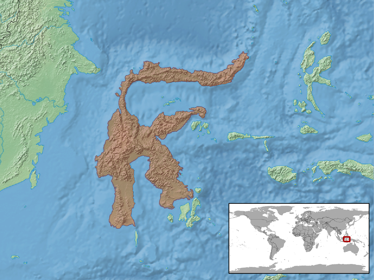 geographic distribution of Calamaria muelleri (Native: Indonesia (Sulawesi))